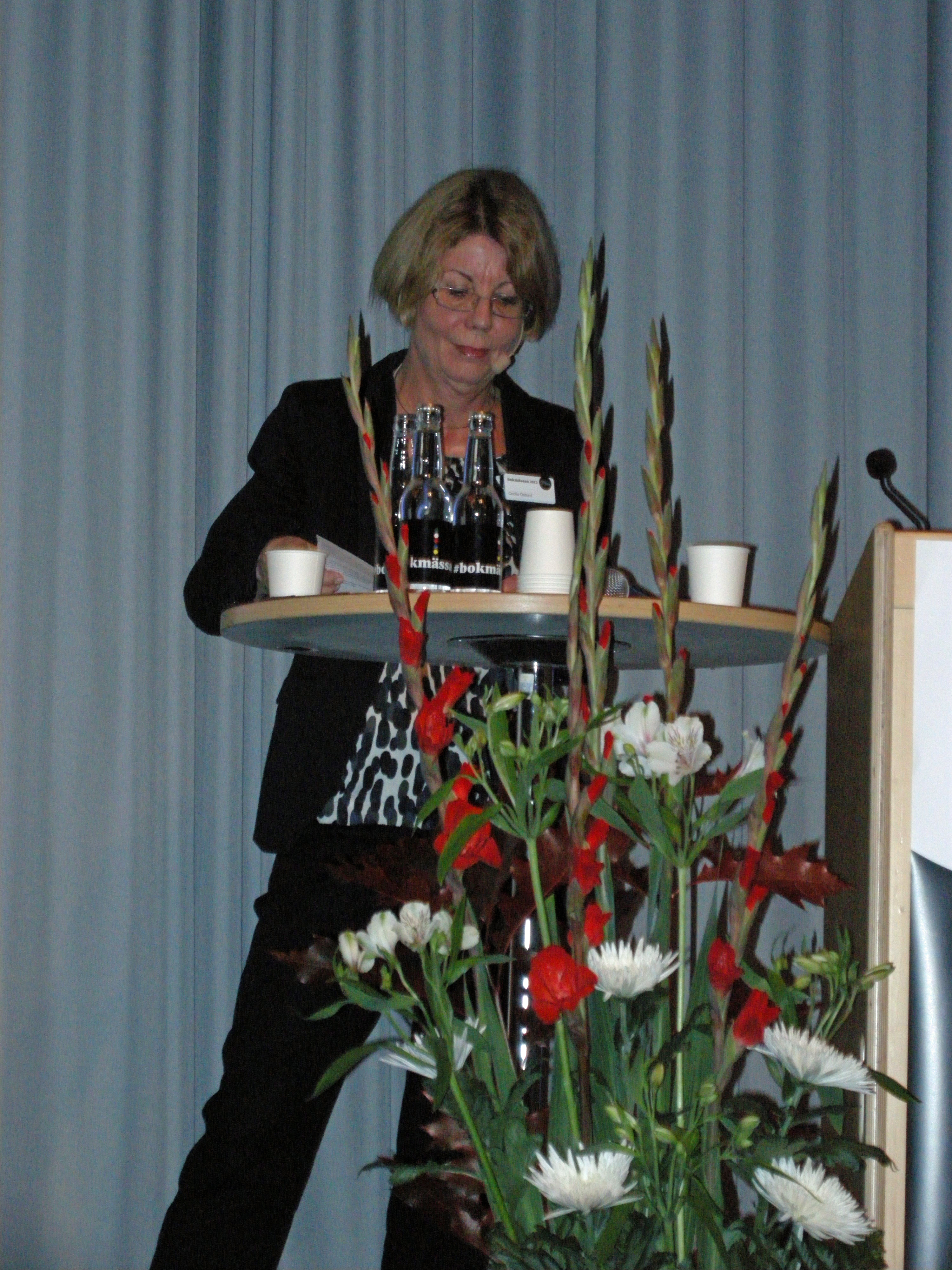 Cecilia Östlund, Svenska Barnboksinstitutet, at Göteborg Book Fair 2012